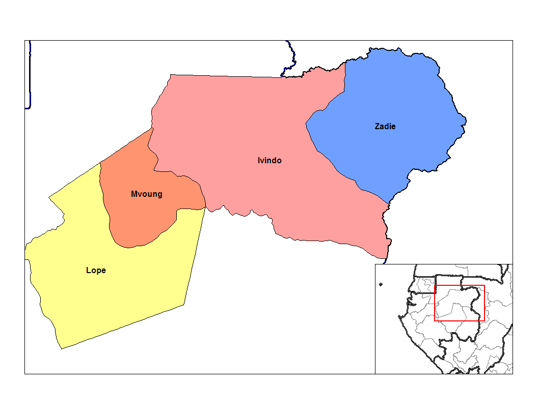 Map of the departments of Ogooue-Ivindo province in Gabon. Created by Rarelibra 20:22, 2 January 2007 (UTC) for public domain use, using MapInfo Professional v8.5 and various mapping resources.